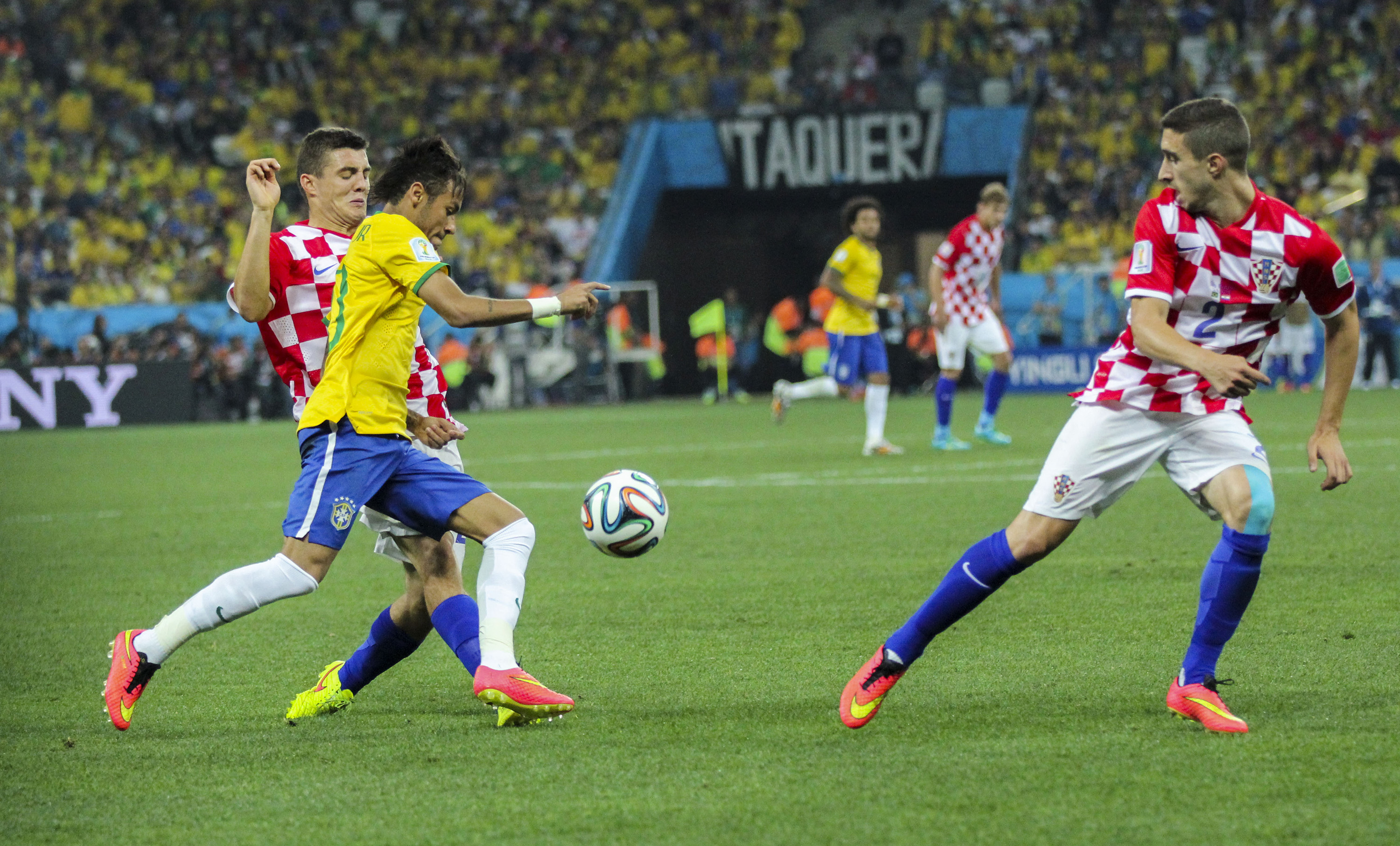 Brazil and Croatia match at the FIFA World Cup 2014-06-12